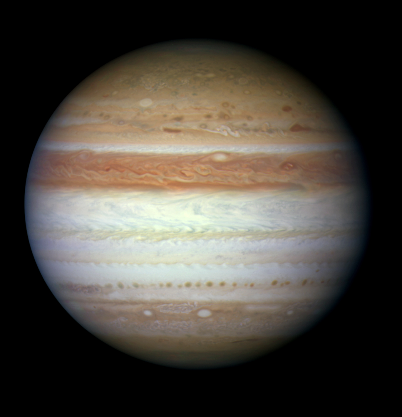 A Hubble picture from June 7, 2010, reveals a slightly higher altitude layer of white ammonia ice crystal clouds that appears to obscure the deeper, darker belt clouds of the SEB. The team predicts that these clouds should clear out in a few months. Hubble also resolved a string of dark spots farther south of the vanished belt. Based on past observations, the Hubble Jupiter team expects to see similar spots appear in the SEB, right before its white clouds clear out in a few months. The giant stormy planet Jupiter has gone through a makeover, as seen in the image below, taken nearly 11 months earlier. Several months ago the dark Southern Equatorial Belt (SEB) vanished. The last time this happened was in the early 1970s, when we didn't have powerful enough telescopes to study the change in detail. This natural color planet portrait was taken in visible light with Hubble's new Wide Field Camera 3.